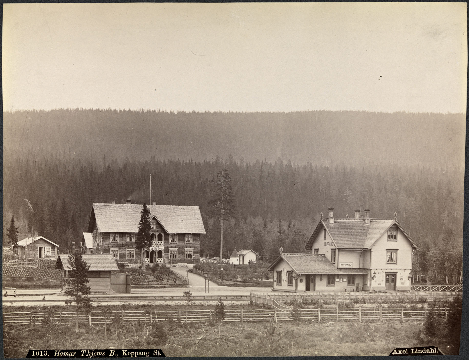 Koppang railway station on Rørosbanen, in Koppang, Stor-Elvdal, Norway.